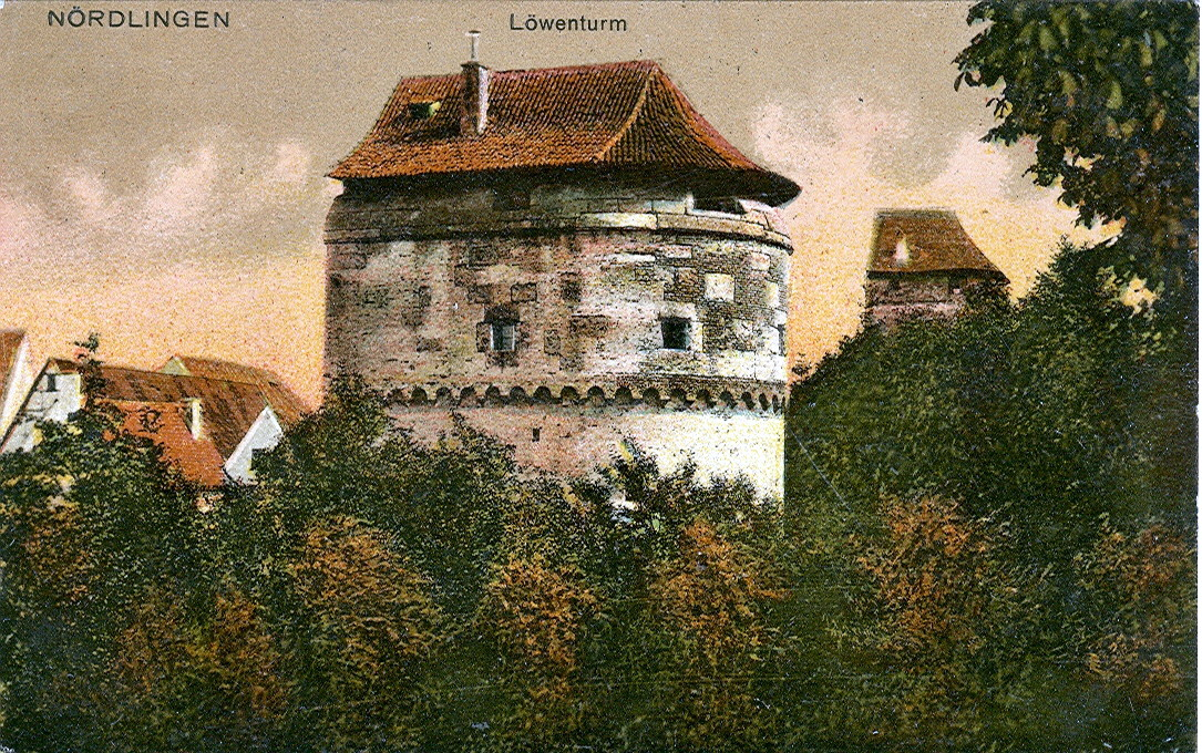 Postcard, dated 28.10.1914. Title: "Nördlingen - Lion´s Tower"